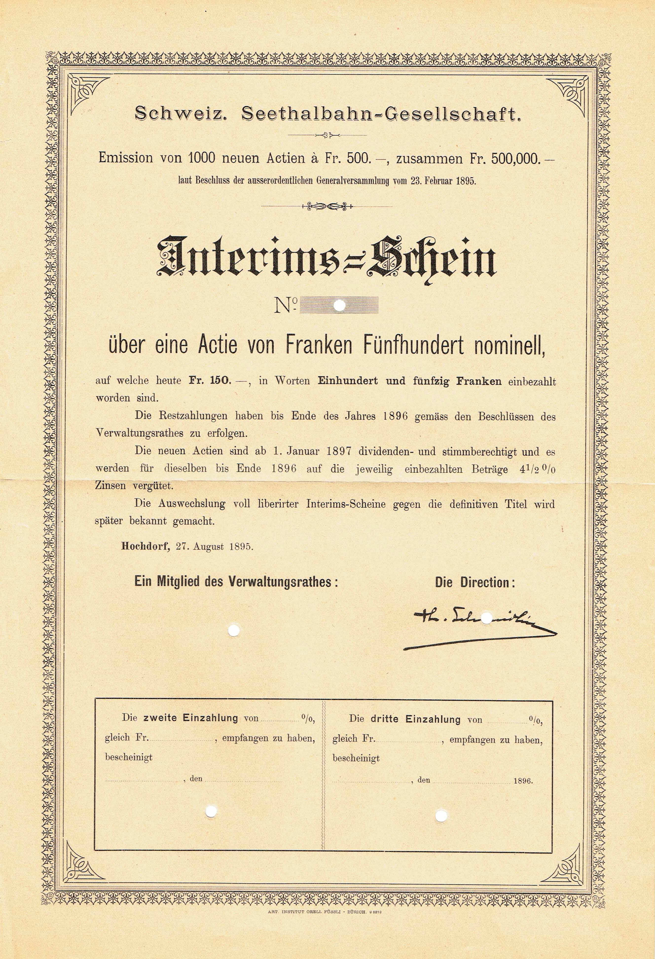 Interim certificate of the Schweiz. Seethalbahn-Gesellschaft, issued 27. August 1895